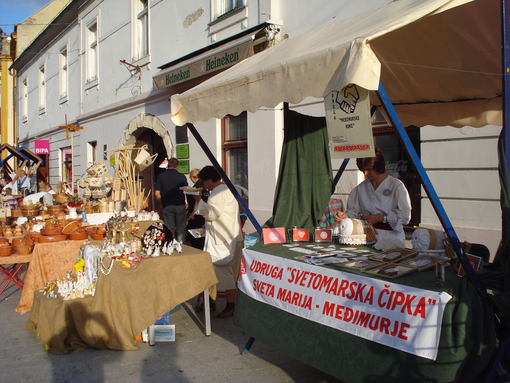 Porcijunkulovo, Catholic feast of Our Lady of the Angels and local festival in Čakovec, Croatia - exhibition booth with lacework from Sveta Marija villageHrvatski: Porcijunkulovo, katolički blagdan Gospe od Anđela i lokalno proščenje u Čakovcu, Hrvatska - štand sa svetomarskom čipkom